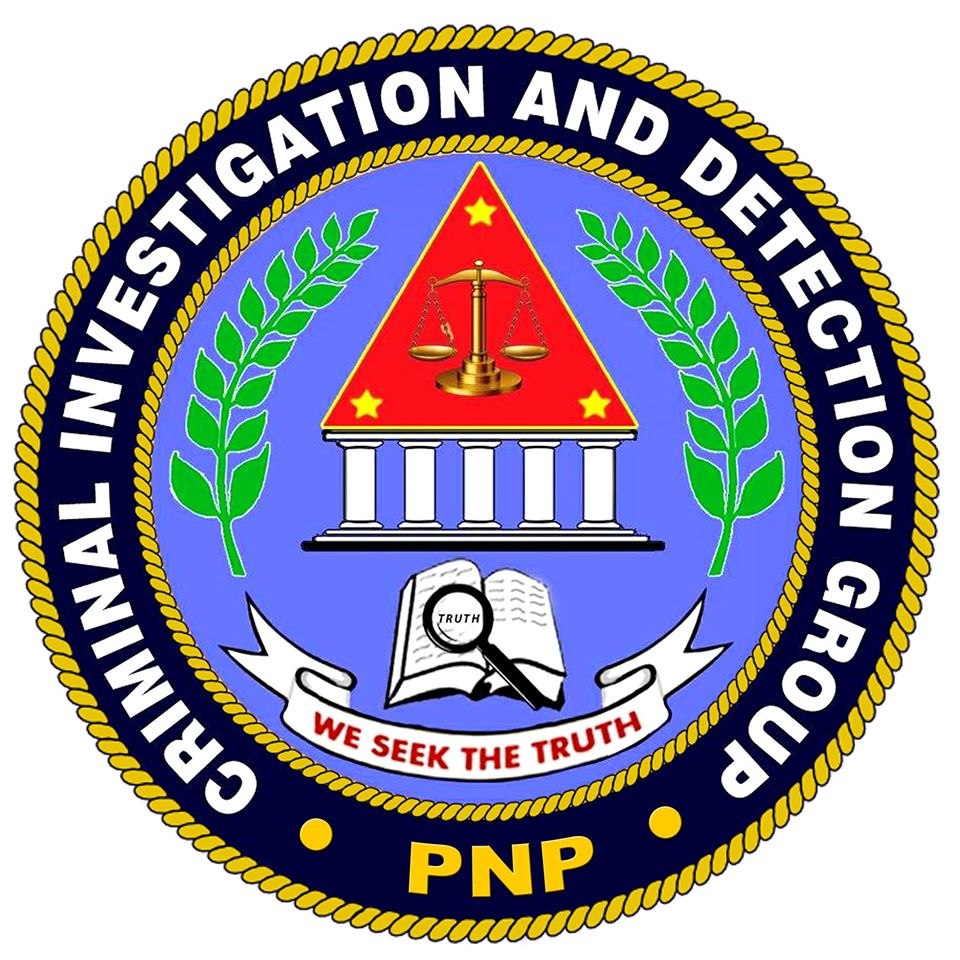 Official seal of the PNP CIDG.